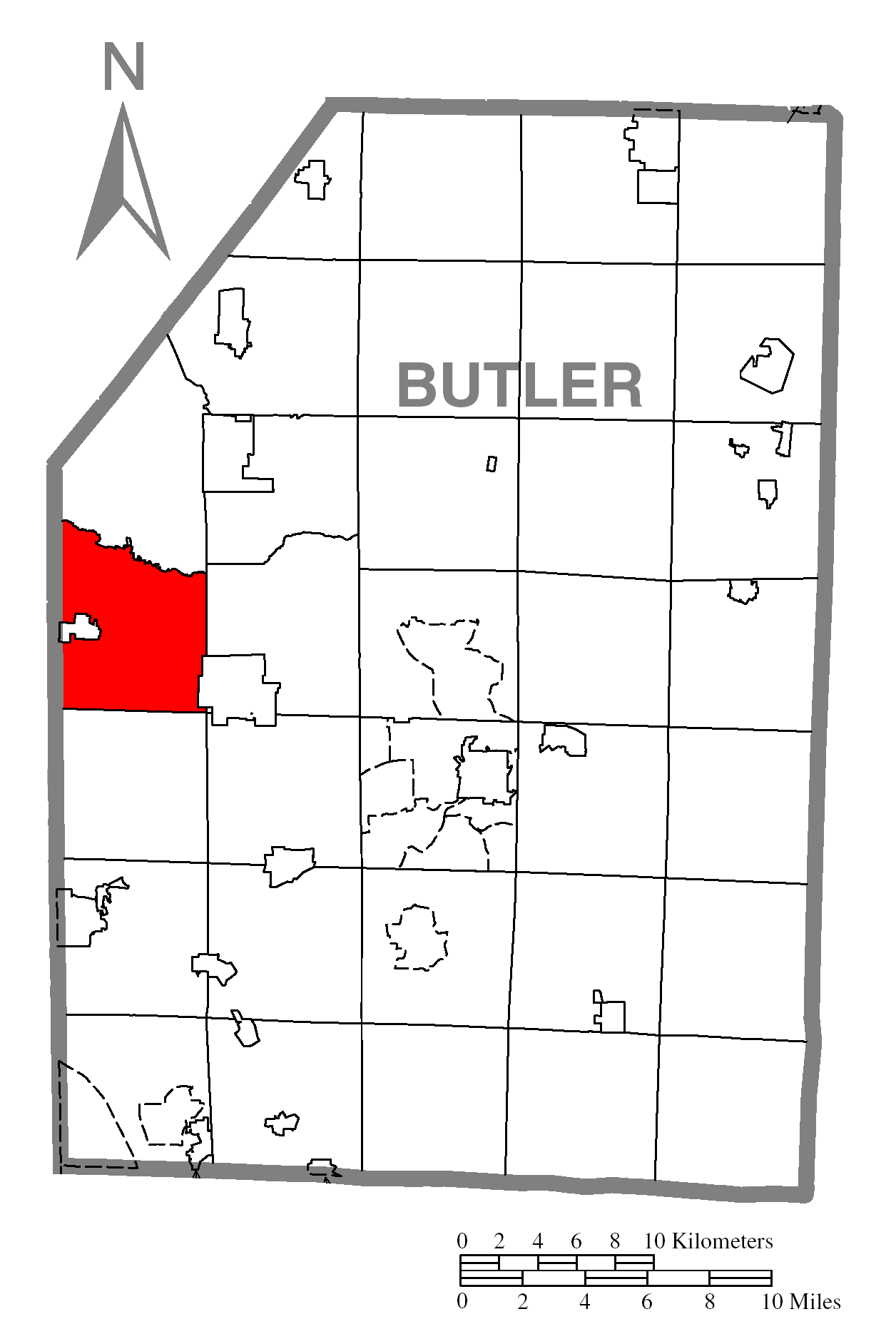 A map of Butler County showing Muddy Creek Township, Pennsylvania (alternate) highlighted on the map.